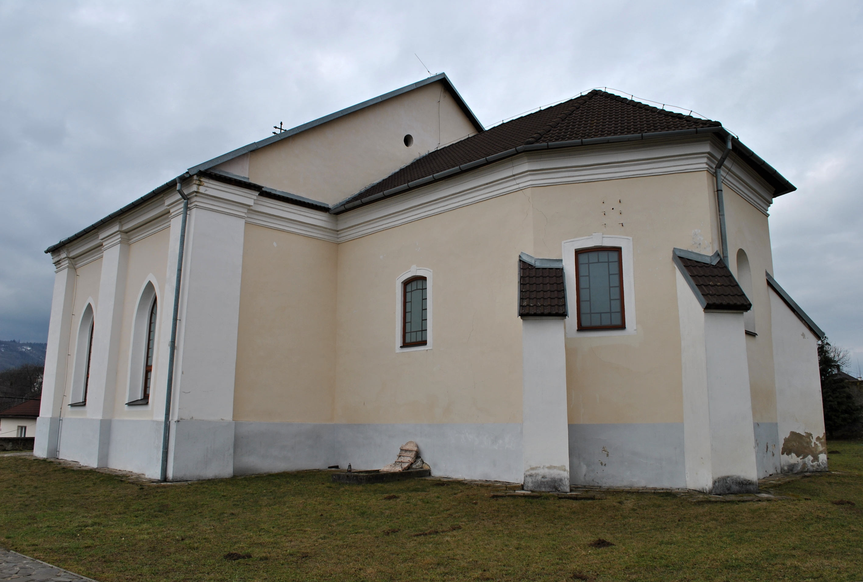 Roman-Catholic Church of St Catherine in Badín, near Banská Bystrica